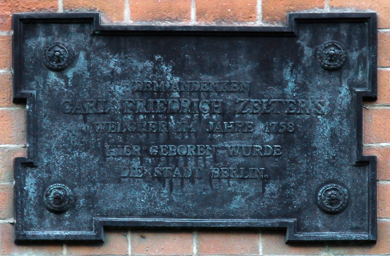 Memorial plaque, Carl Friedrich Zelter, Münzstraße 23, Berlin-Mitte, Deutschland